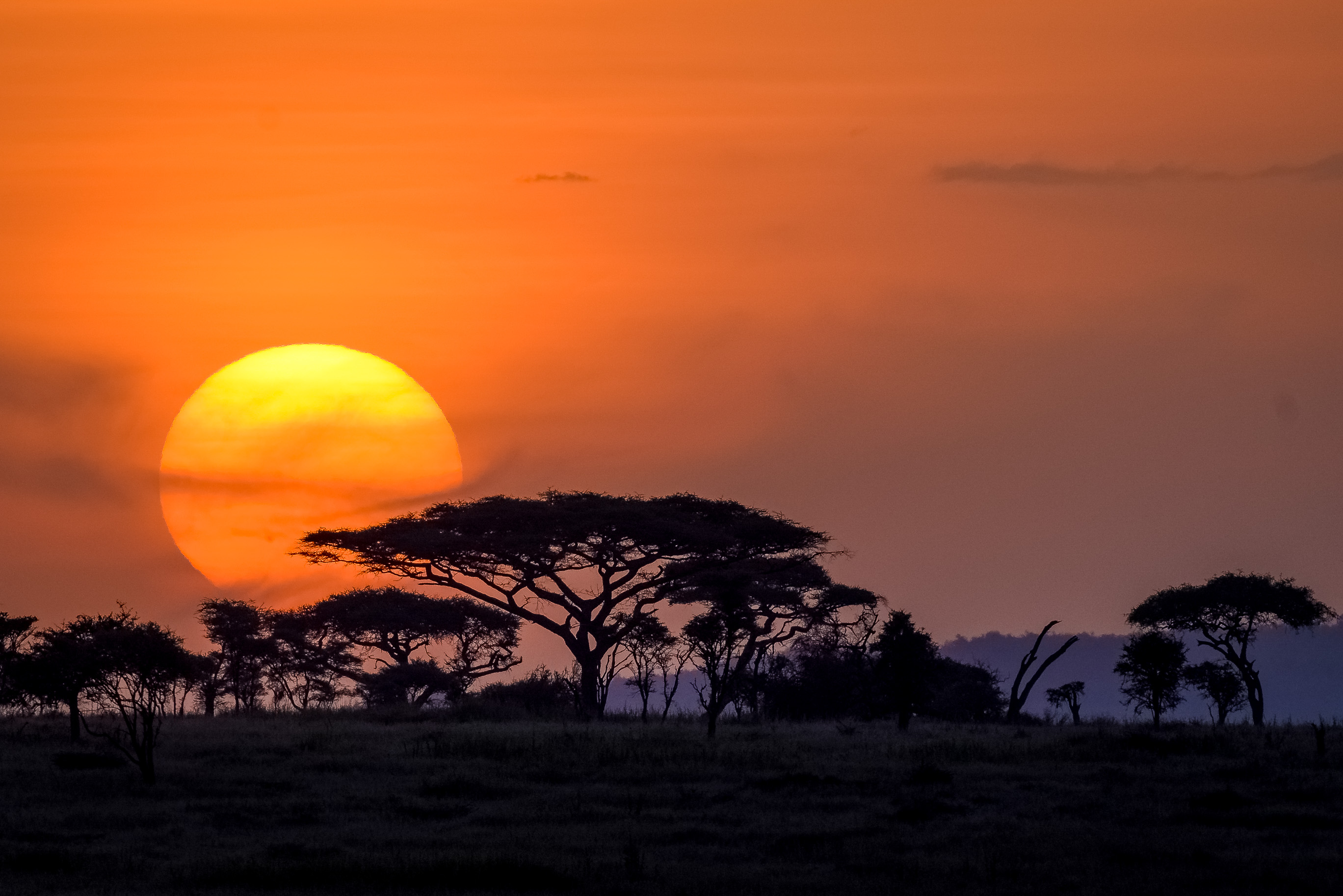 2016, sunset taken with 750mm (equivalent) Nikon. taken near Seronera Camp just after rainy season